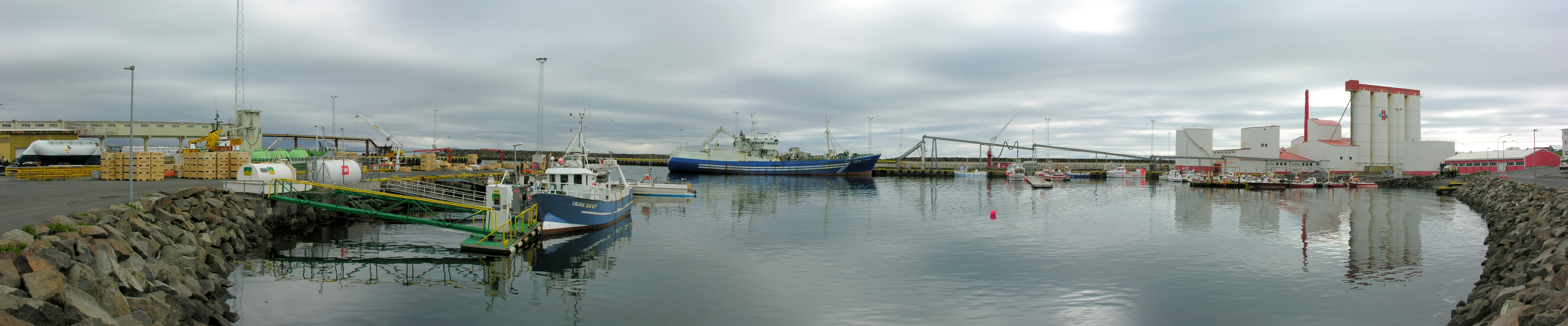 Iceland, Akranes Harbour